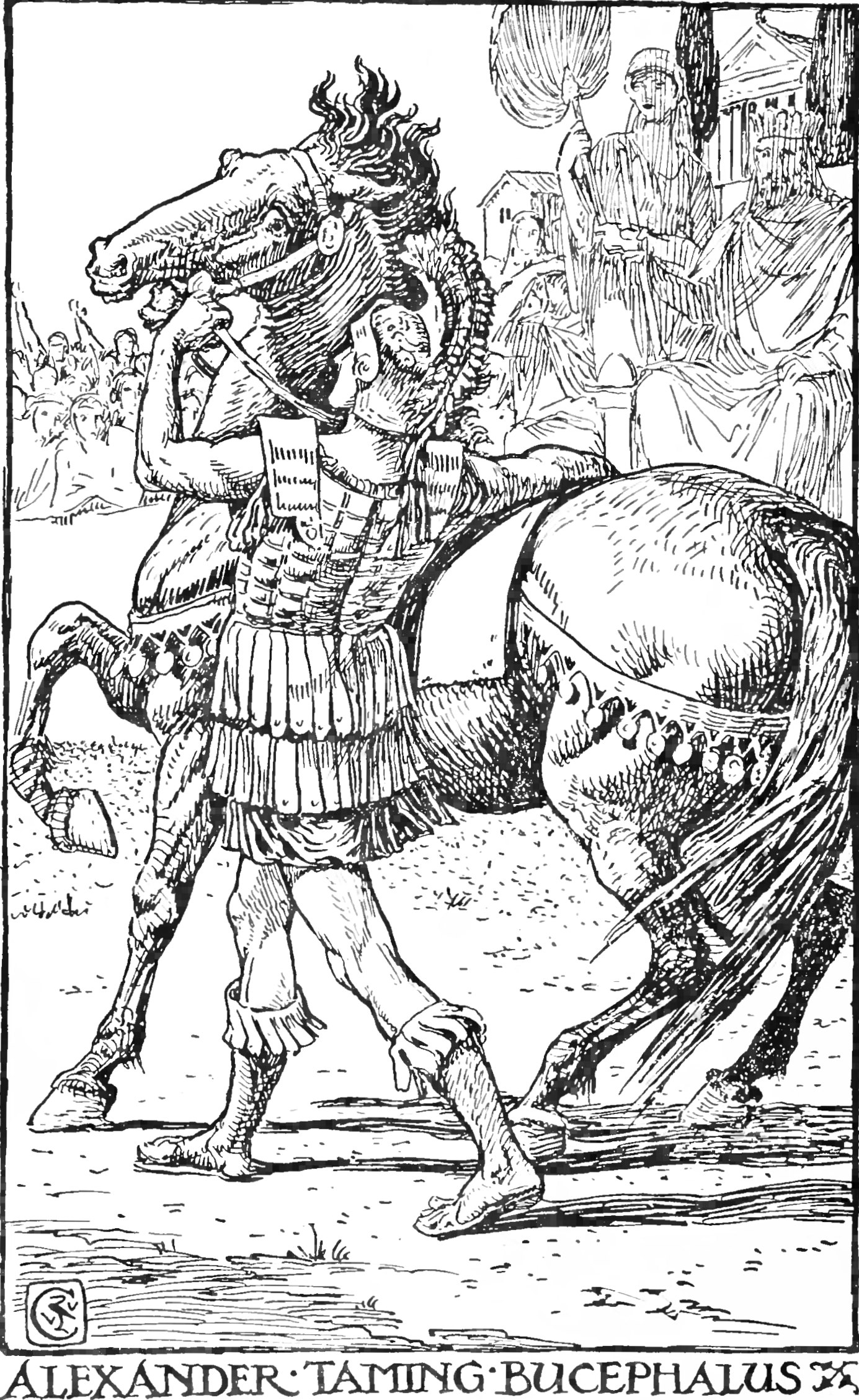 Illustration of Alexander the Great (the great what? one might ask) taming Bucephalus